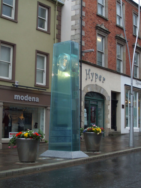 Glass Obelisk Memorial, Market Street, Omagh. It is certainly lit up, but not by the Garden of Light reflectors at Drumragh Avenue. This a spotlight shining on it from the wall behind it at Modena.